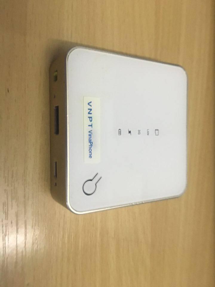 Wifi 3G, Powerbank